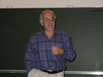 MFO description: On the Photo: Sontag, Eduardo — Occasion: Workshop: Control Theory: On the Way to New Application Fields — Location: Oberwolfach — Author: Greuel, Gert-Martin (photos provided by Greuel, Gert-Martin) — Source: MFO — Year: 2009 — Copyright: MFO